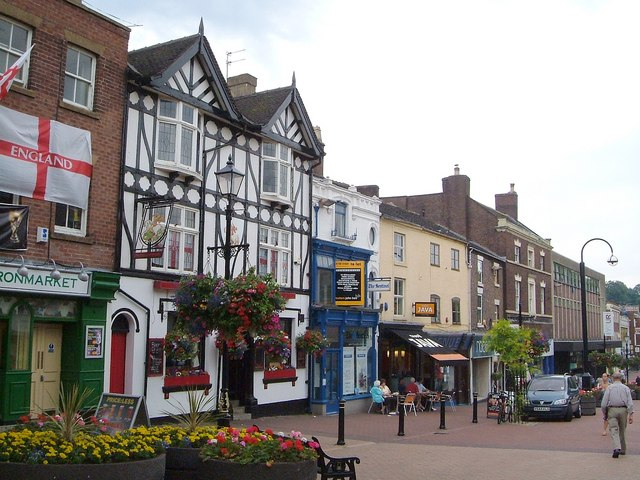 Ironmarket, Newcastle-Under-Lyme, near to Newcastle-Under-Lyme, Staffordshire, Great Britain. Shops on the north side of the pedestrianised street. The building beyond Caffe Java, occupied by Venue clothing, is listed - the shop front and 1800 facade hide a C17 interior Link .